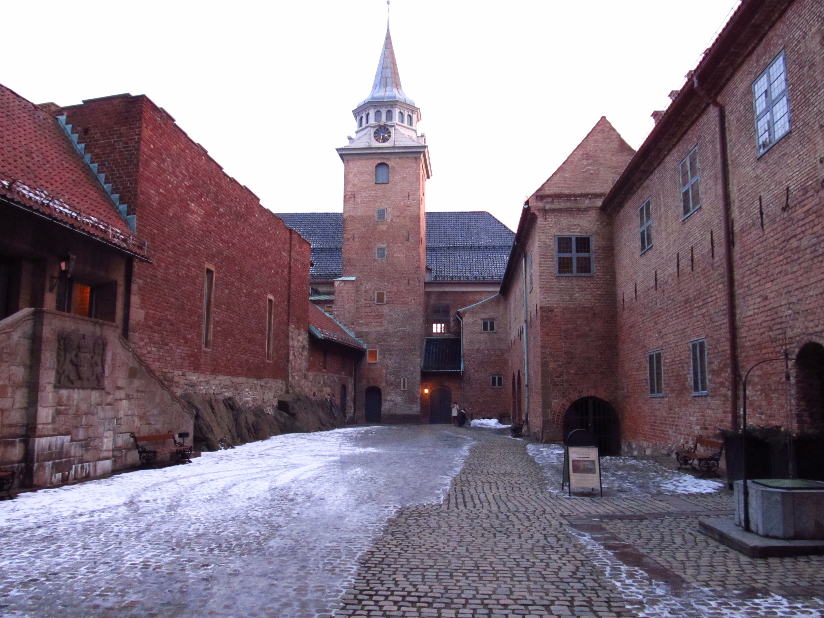 Courtyard of Akershus castle, Oslo, Norway. December, 2012